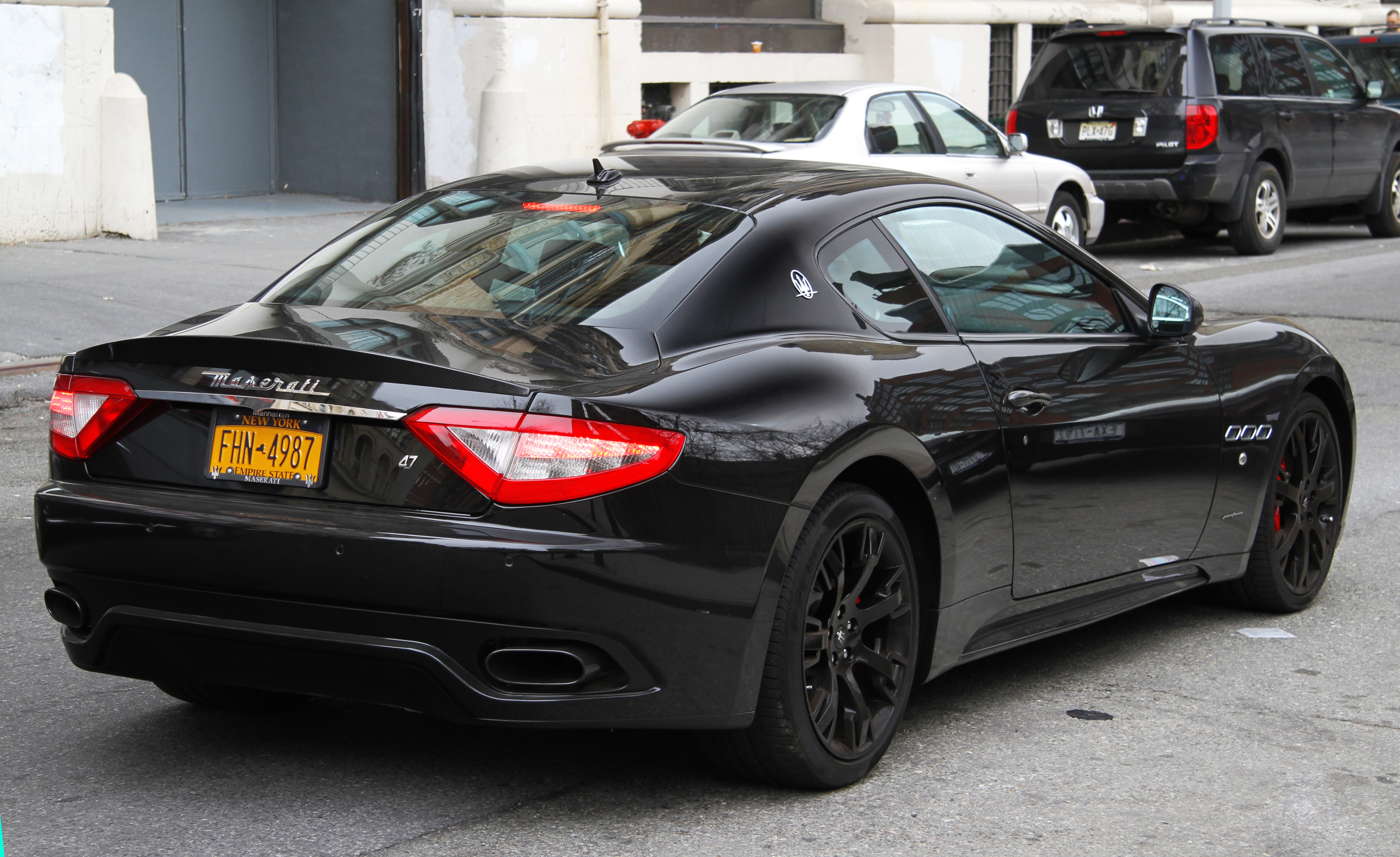 Black on black on black.